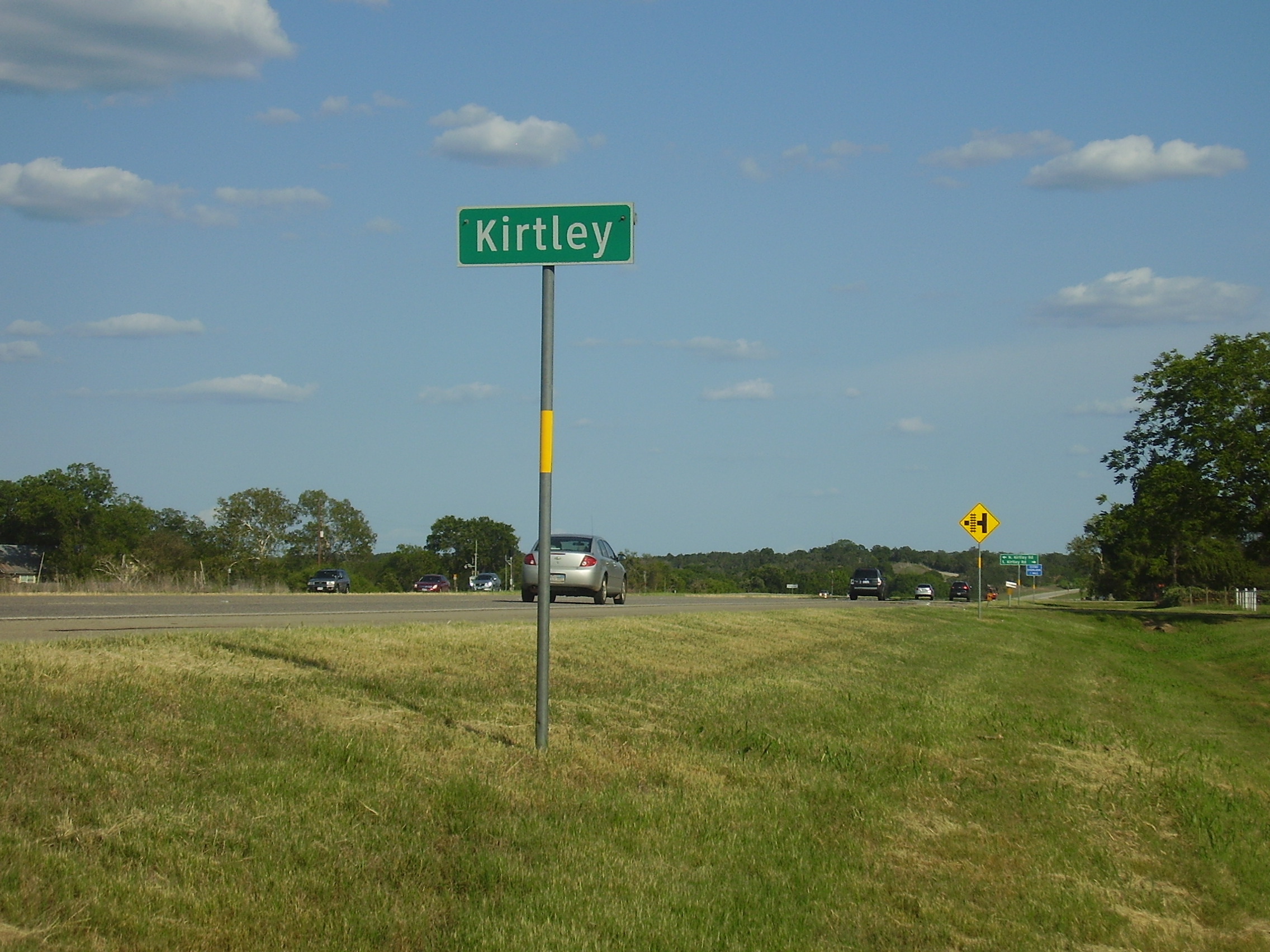 Kirtley, Texas sign